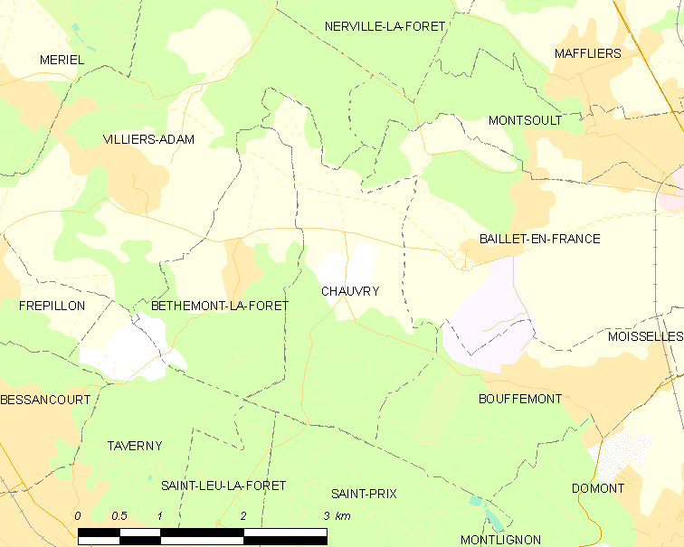 Map of French municipality Chauvry